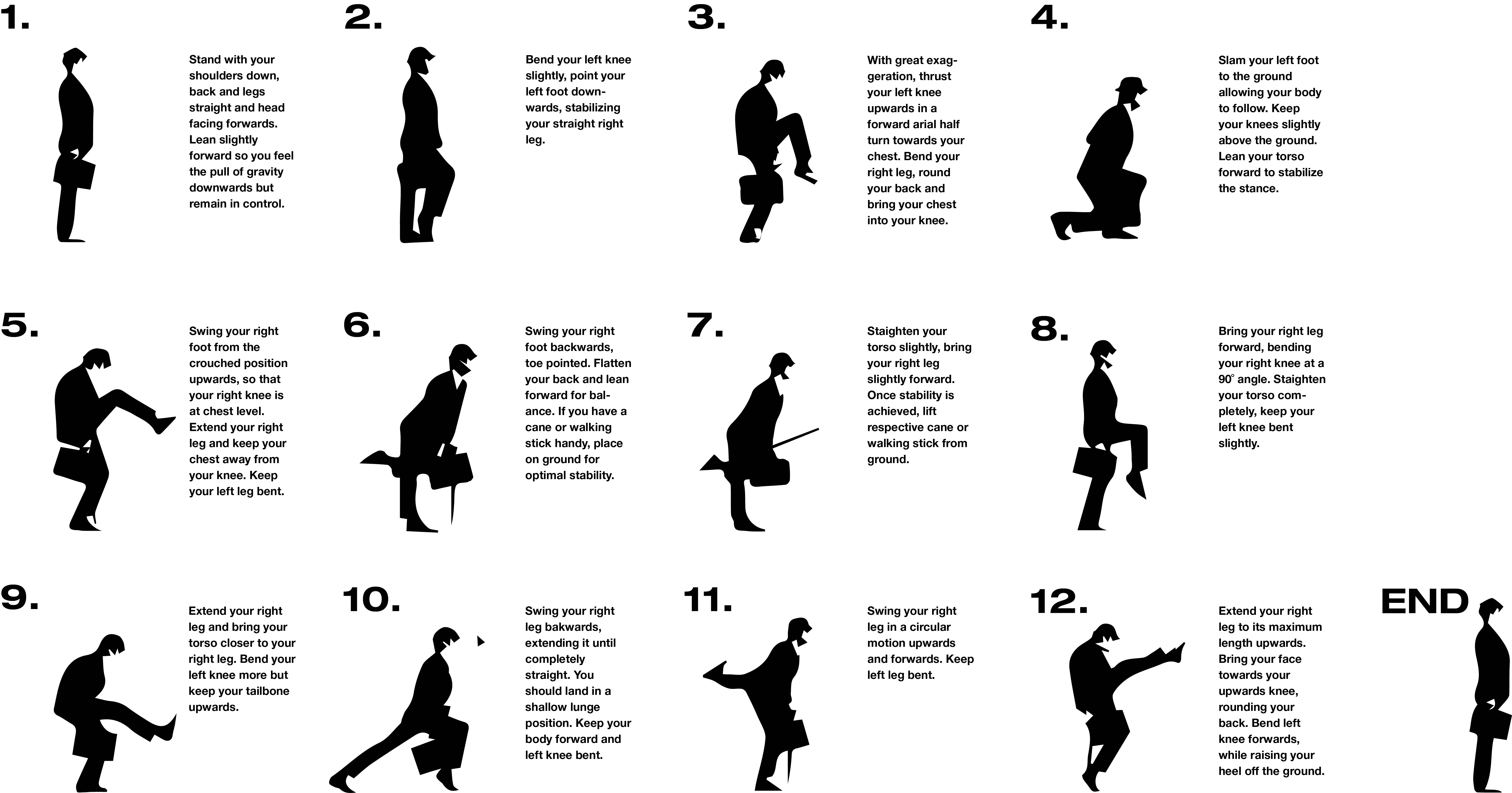 Typical silly walk gait with instructions.